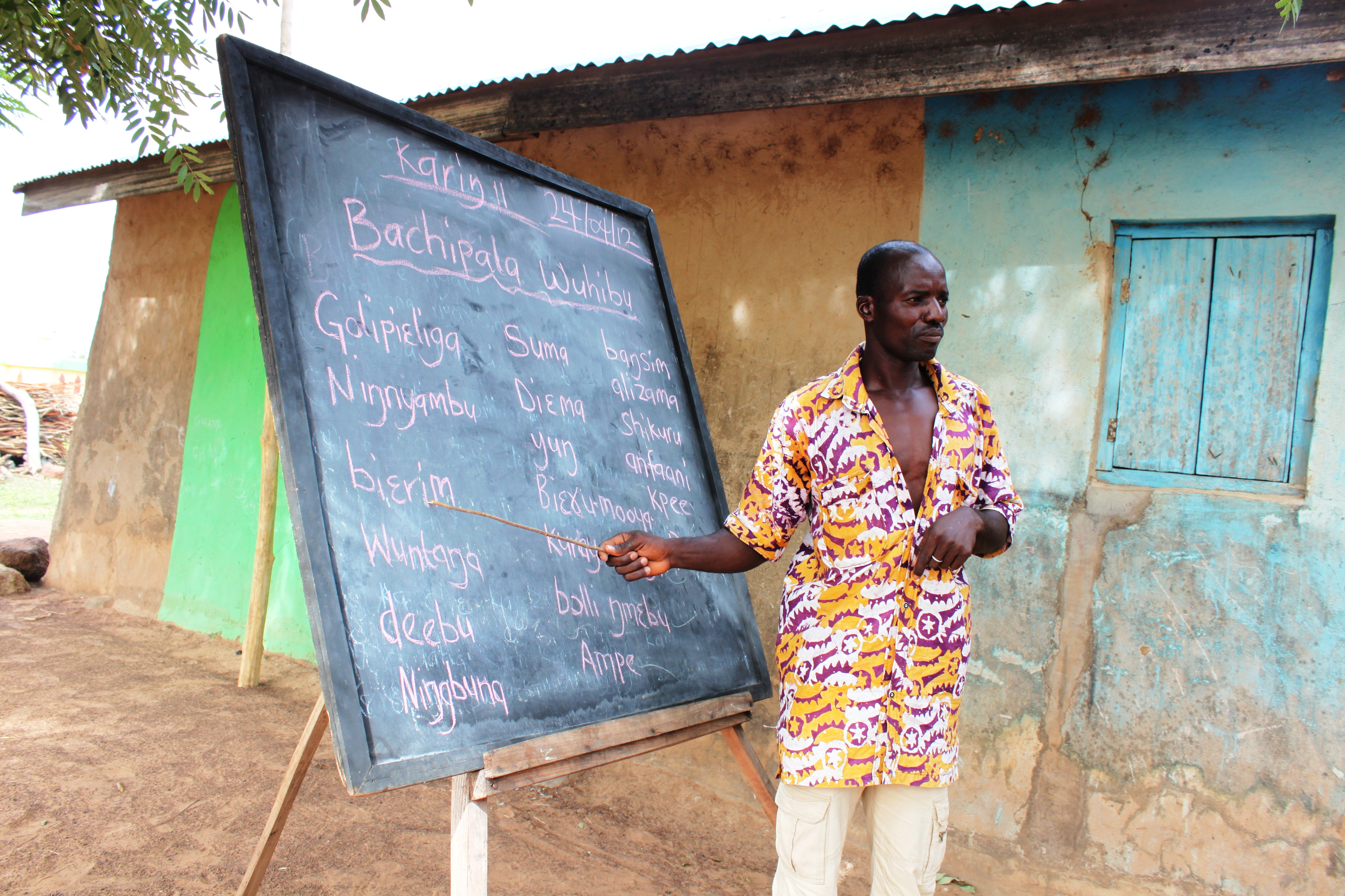 A teacher at School for Life, a DFID supported programme that teaches out of school children intensively for a year in their native language, given them the chance to join primary school when they complete the course.